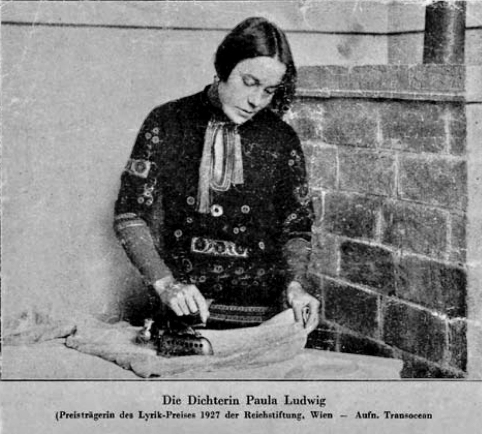 Austrian painter and writer Paula Ludwig (1900–1974) in 1927.